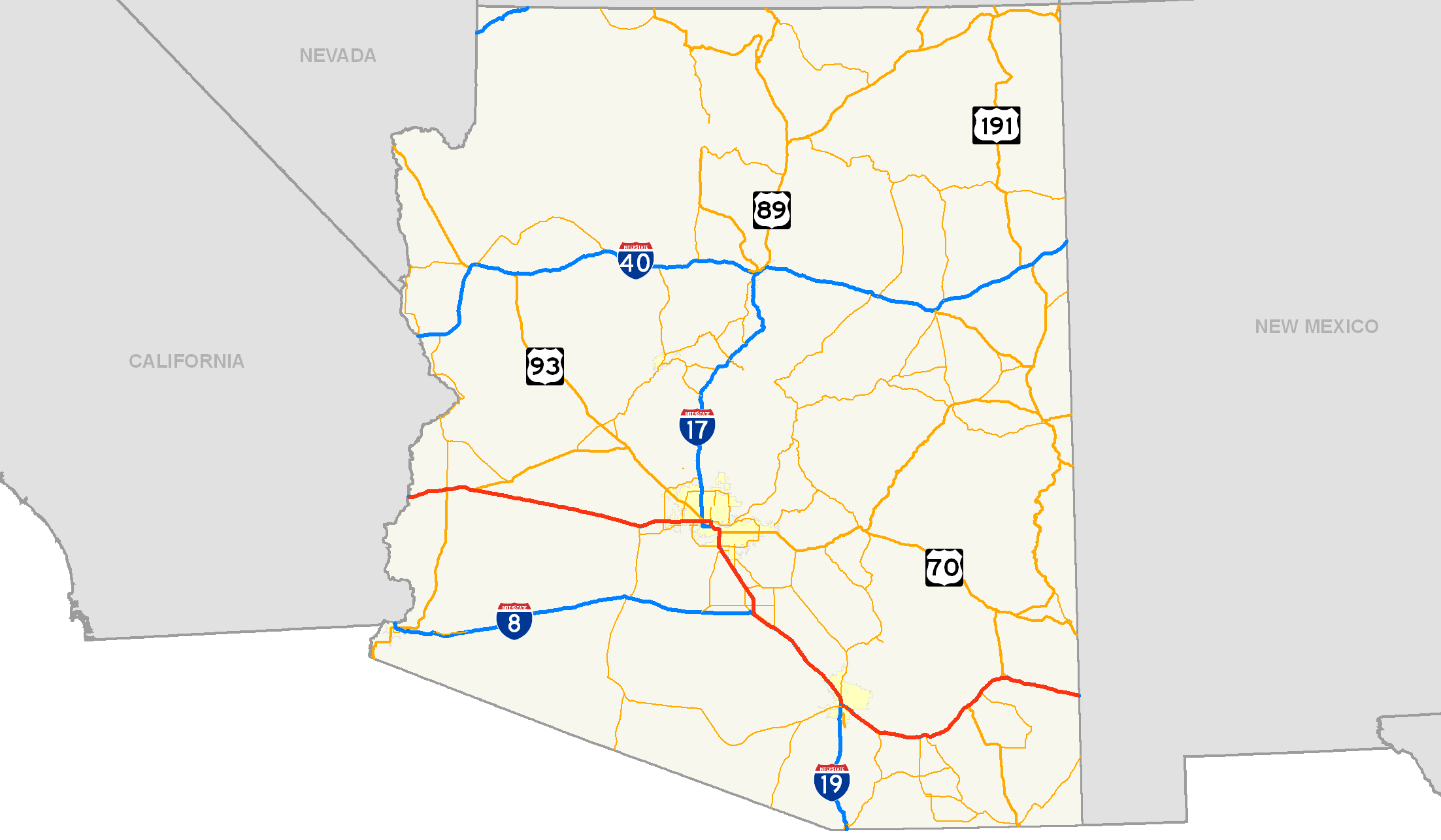 Map of Interstate 10 through Arizona